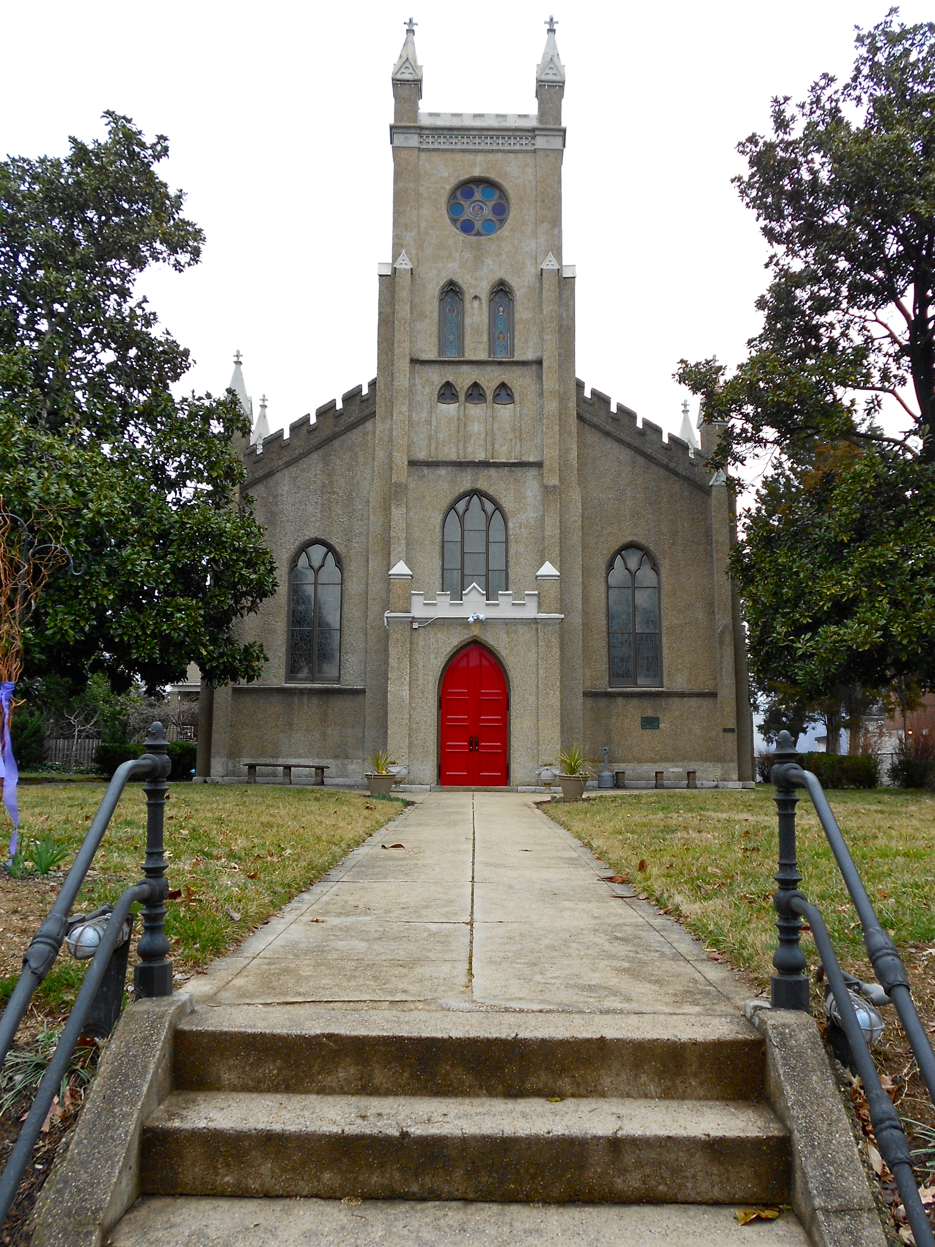 Christ Church, located at 620 G Street, SE in the Capitol Hill Historic District on the National Register of Historic Places. This is in the Southeast Quadrant of Washington DC. Architect Benjamin Latrobe, built 1806. Also separately listed on the NRHP.